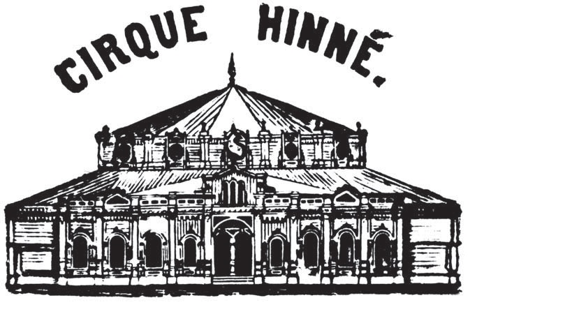 Circus Ginne